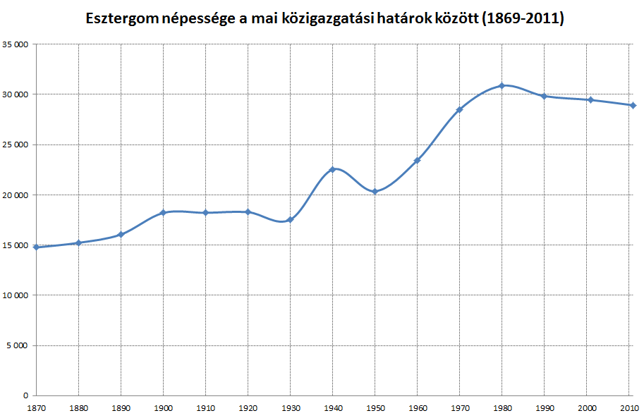 Population chart of Esztergom, Hungary within current (2013) city limits. data source: 2011 census data